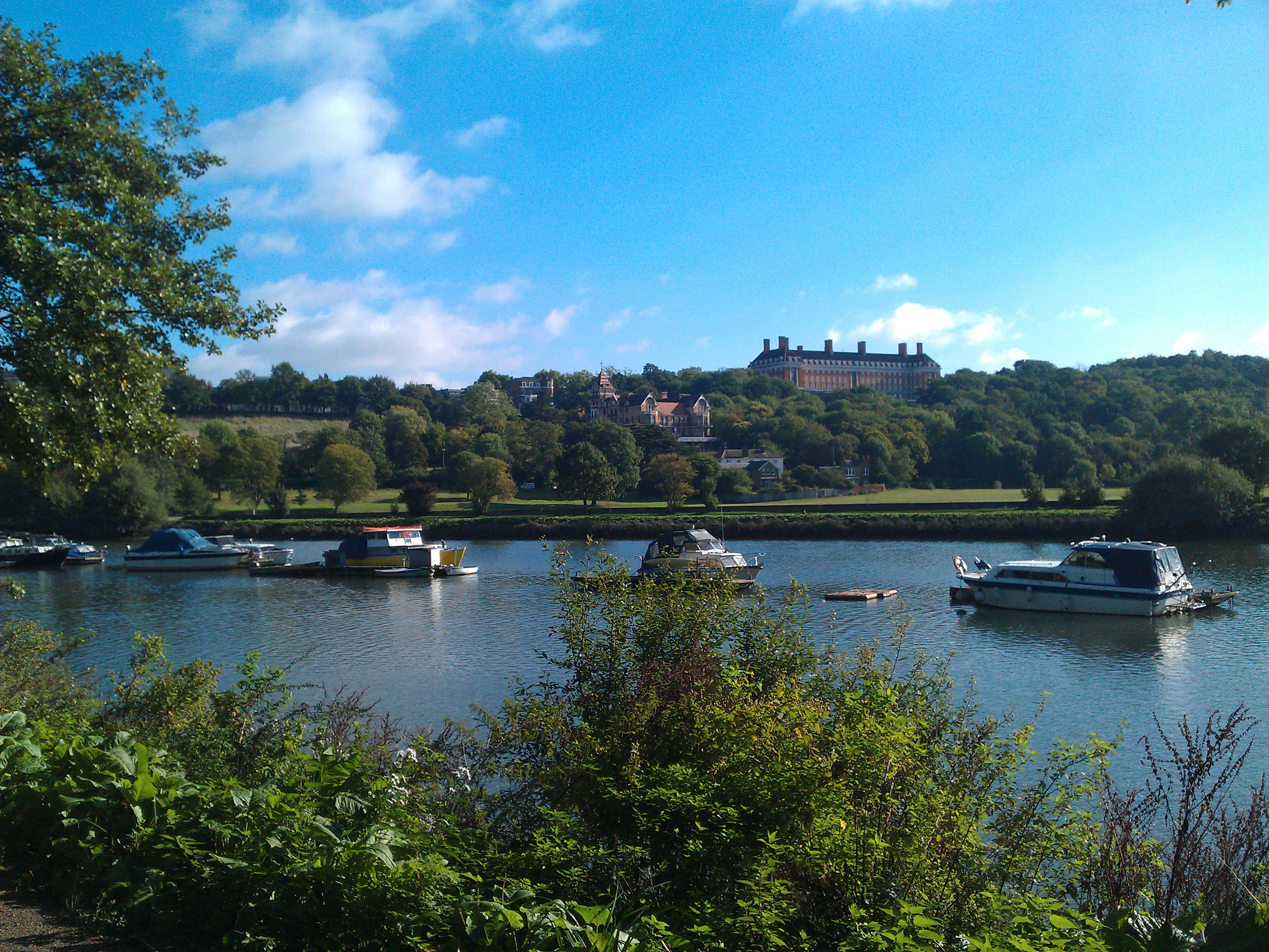 Thames riverside picture of Royal Star and Garter Home on Richmond Hill